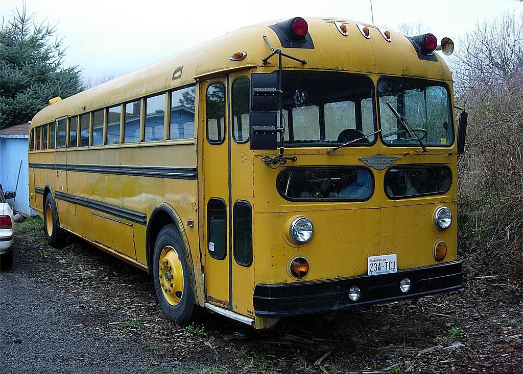 A retired 1955 Kenworth Model T-216 "Pacific School Coach" seen here in Cathlamet, Washington.